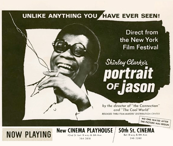 Advertisement promoting screenings of the 1967 documentary film Portrait of Jason at the New Cinema Playhouse and 50th St. Cinema in New York.